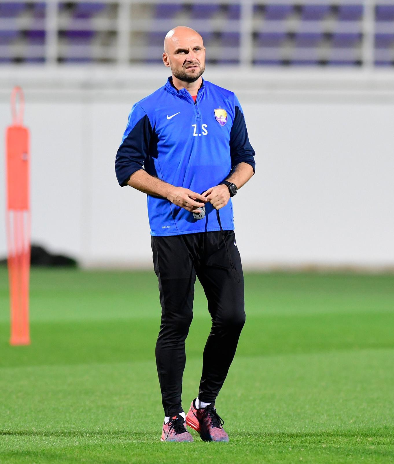 Zeljko Sopic coaching first team of Al Ain.